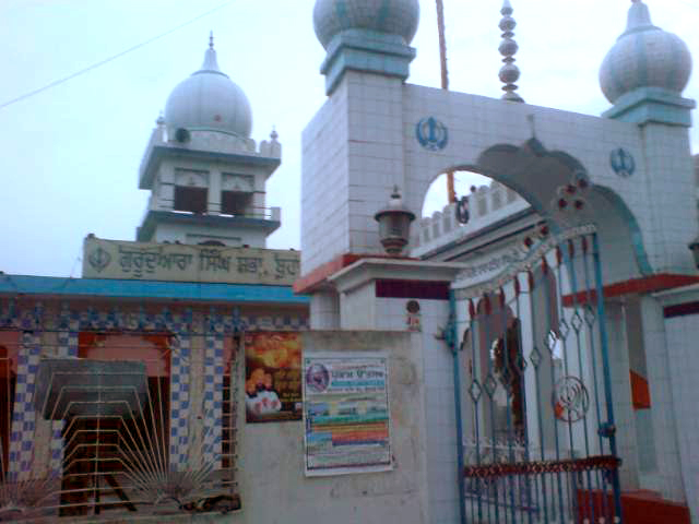 Gurduara Singh Sabha pind Bohara Nawanshshar